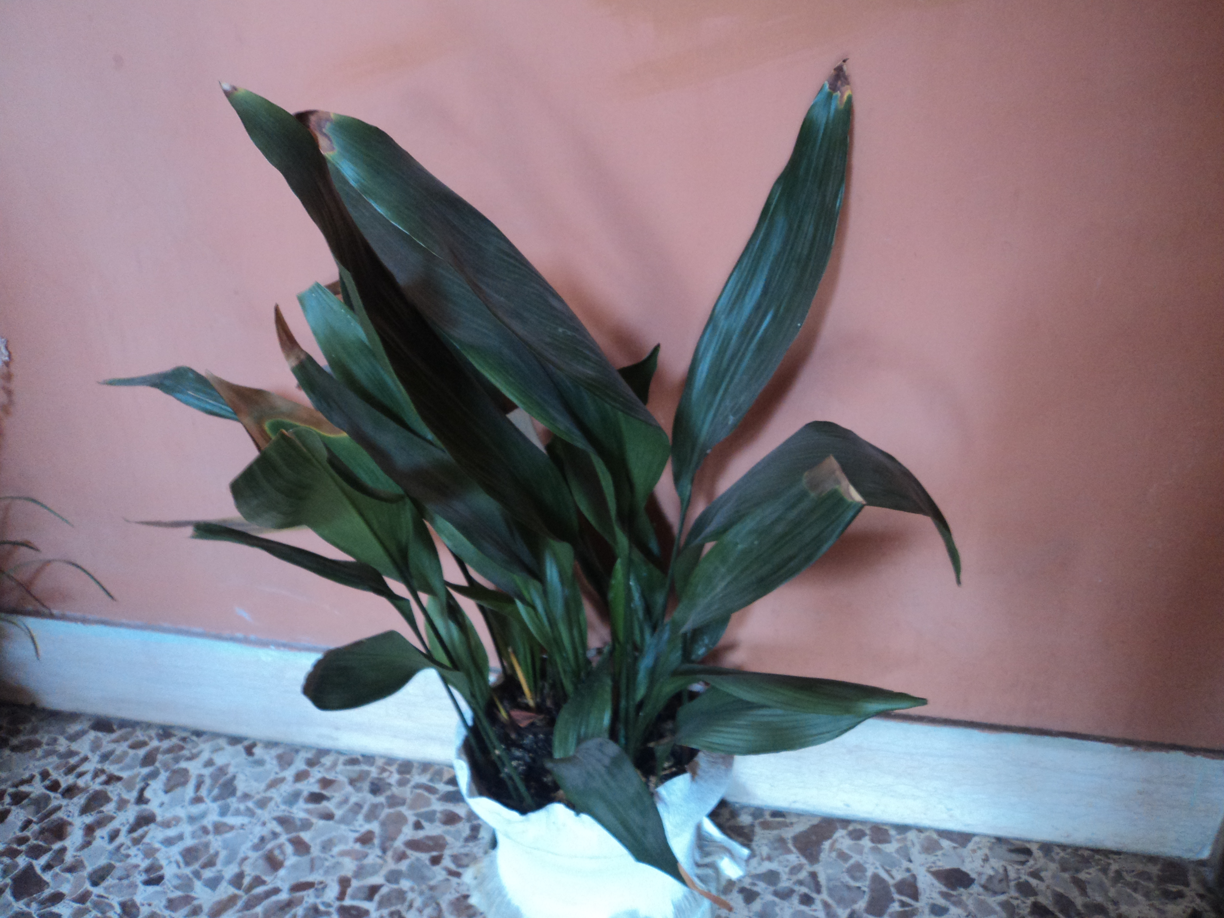 Plants